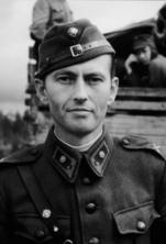 Knight of the Mannerheim Cross #117